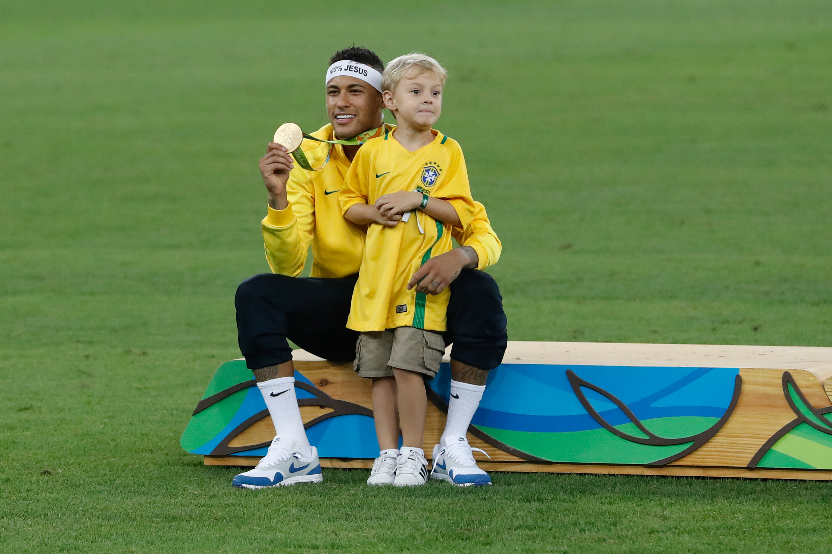 Rio de Janeiro - Brasil vence Alemanha e conquista primeiro ouro olímpico do futebol (Fernando Frazão/Agência Brasil)